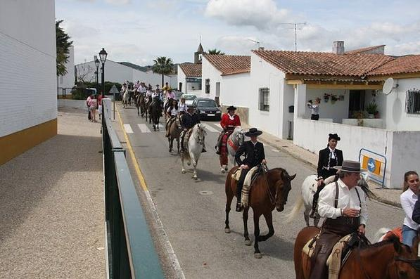 Romeria of Castellar de la Frontera (Spain)